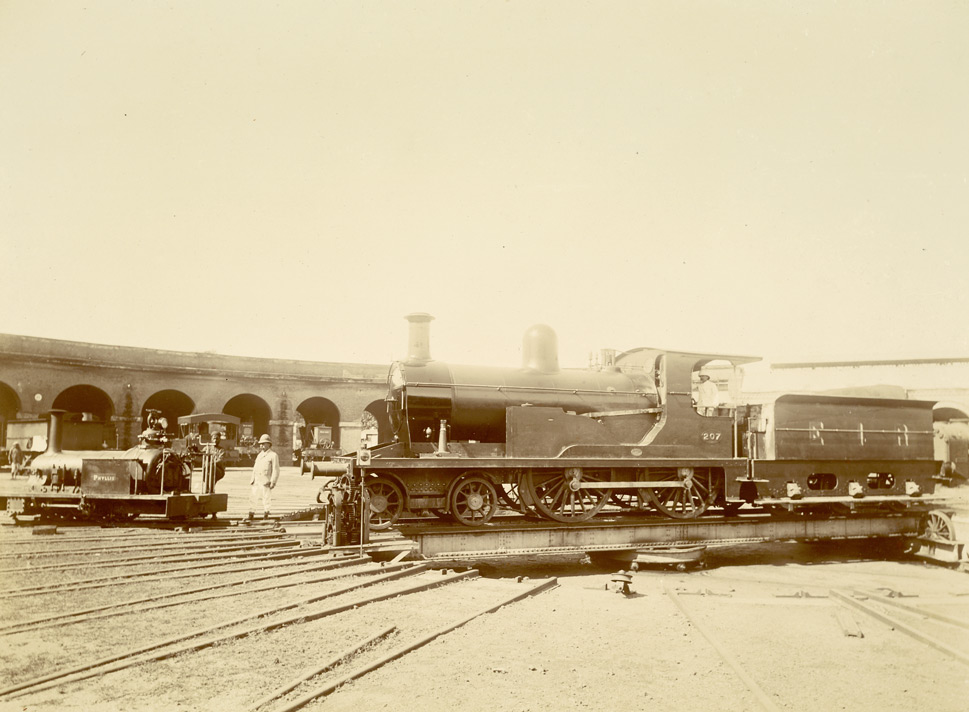 The Largest and Smallest Locomotives on the line. The small locomotive on the left is called Phyllis, the larger one is numbered 207.